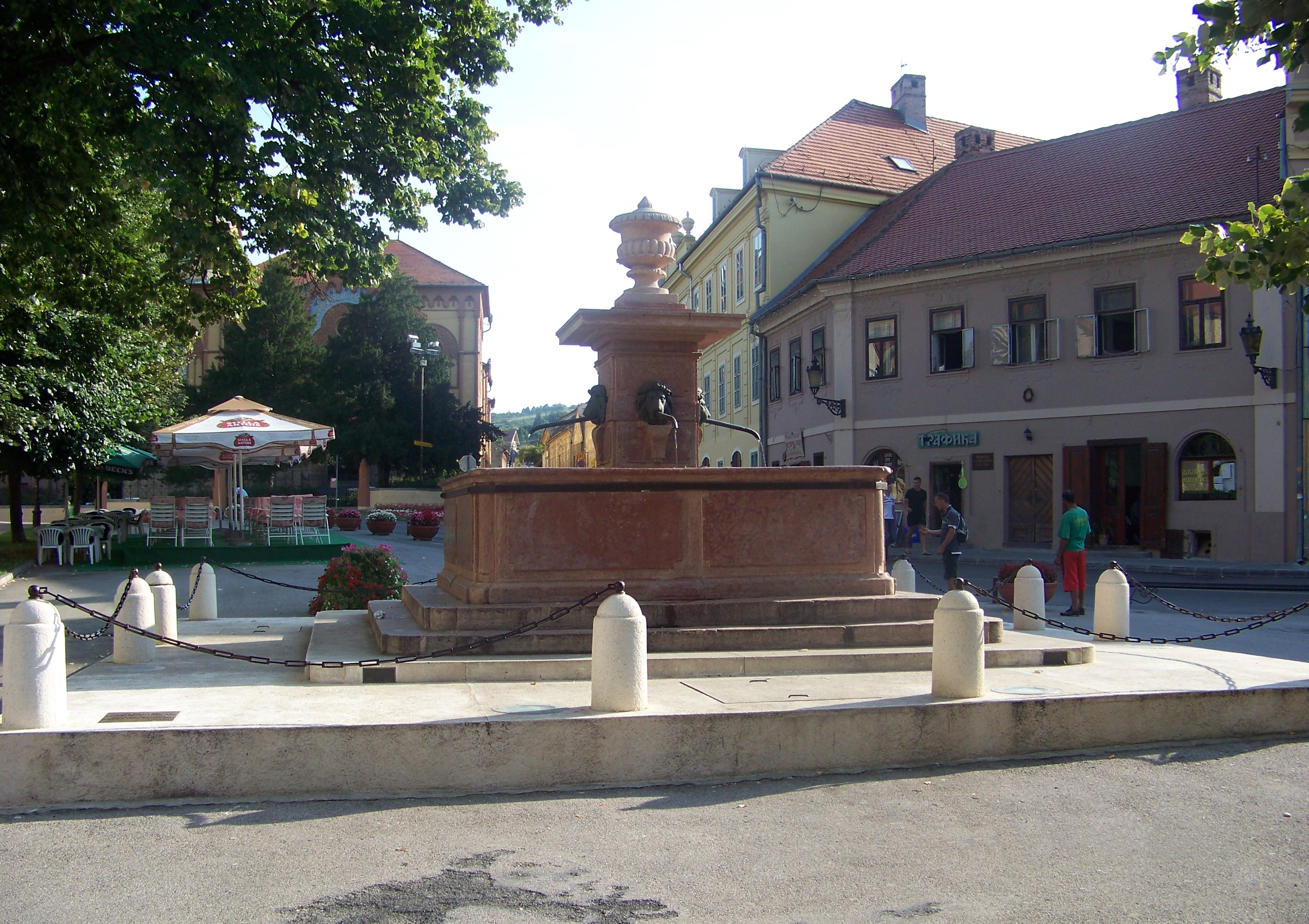 Sremski Karlovci, town square fountain